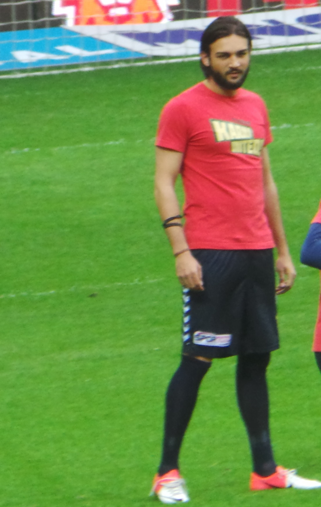 Can Erdem TT Arena'da